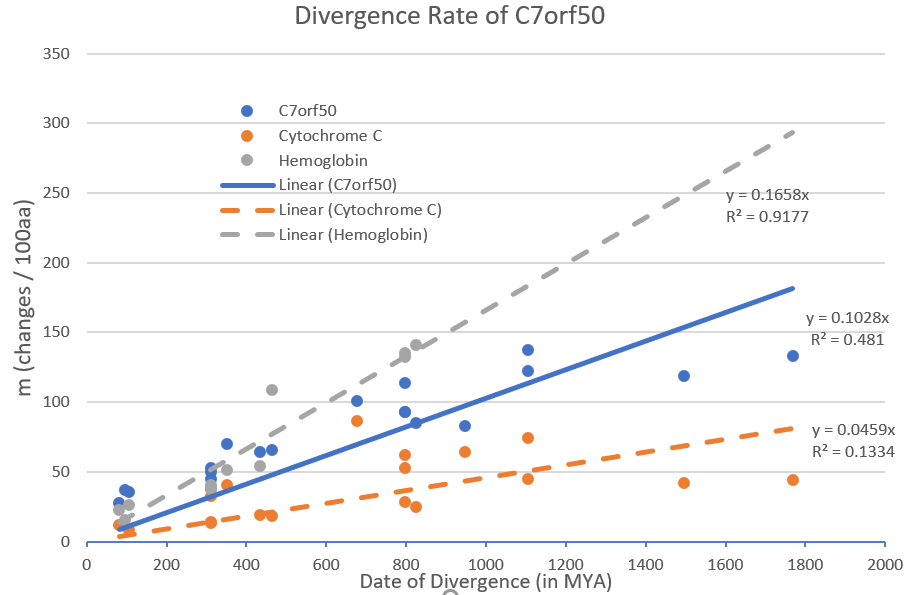 Rate of C7orf50 divergence based on rates of Cytochrome C and Hemoglobin.